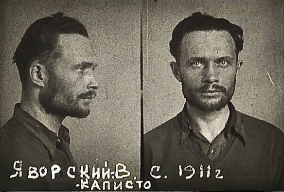 Wacław Kopisto (1911-1993) officer of the Polish Army in interwar Poland, infantry captain, and an underground soldier of the elite Polish Cichociemni unit (the Silent Unseen) during the occupation of Poland in World War II. 1944-1954 imprisoned by Soviet NKVD in Gulag